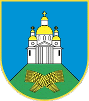 Coats of arms of Sumskij district (Ukraine)